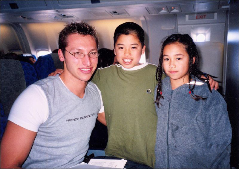 Swimmer Ian Thorpe on a plane.